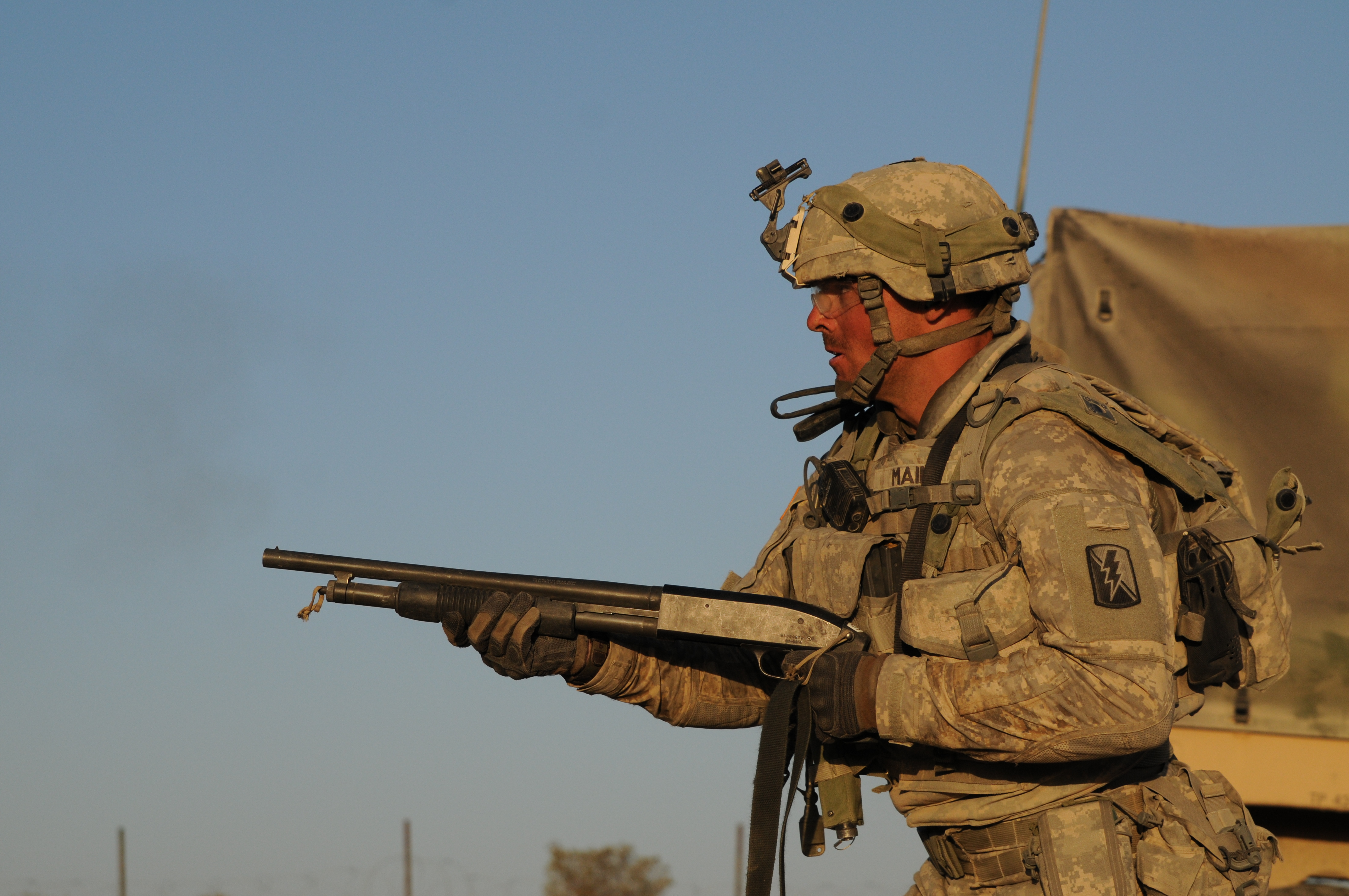 Staff Sgt. Richard Main with California Army National Guard’s Charlie Company, 1st Battalion, 184th Infantry (Light), fires a Mossberg 500 shotgun during a field training exercise May 16 at the National Training Center in Fort Irwin, Calif. (Army National Guard photo/Spc. Grant Larson)